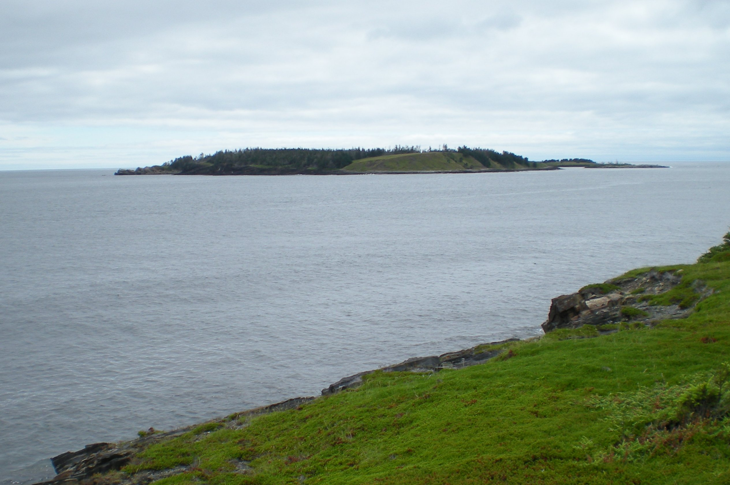 The island of Ironbound of Nova Scotia